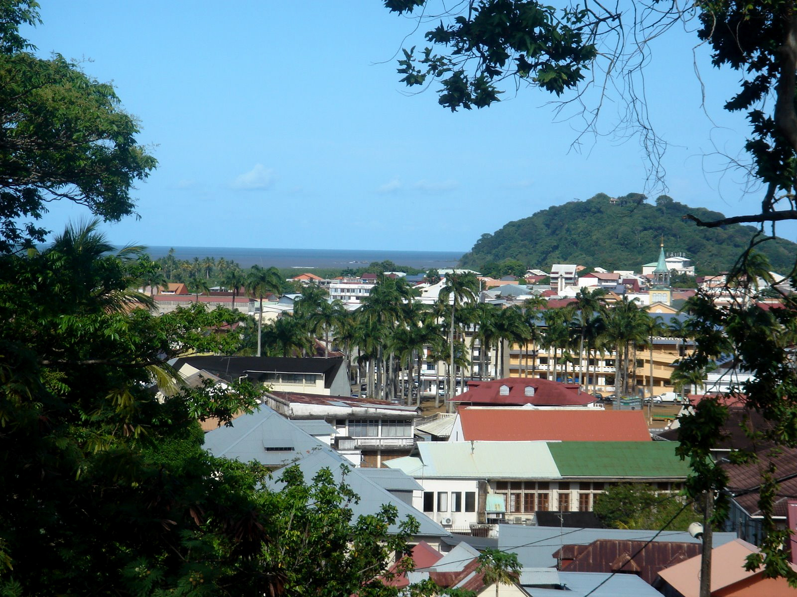 Cayenne downtown view from ceperou hill. with montabo hill in the background